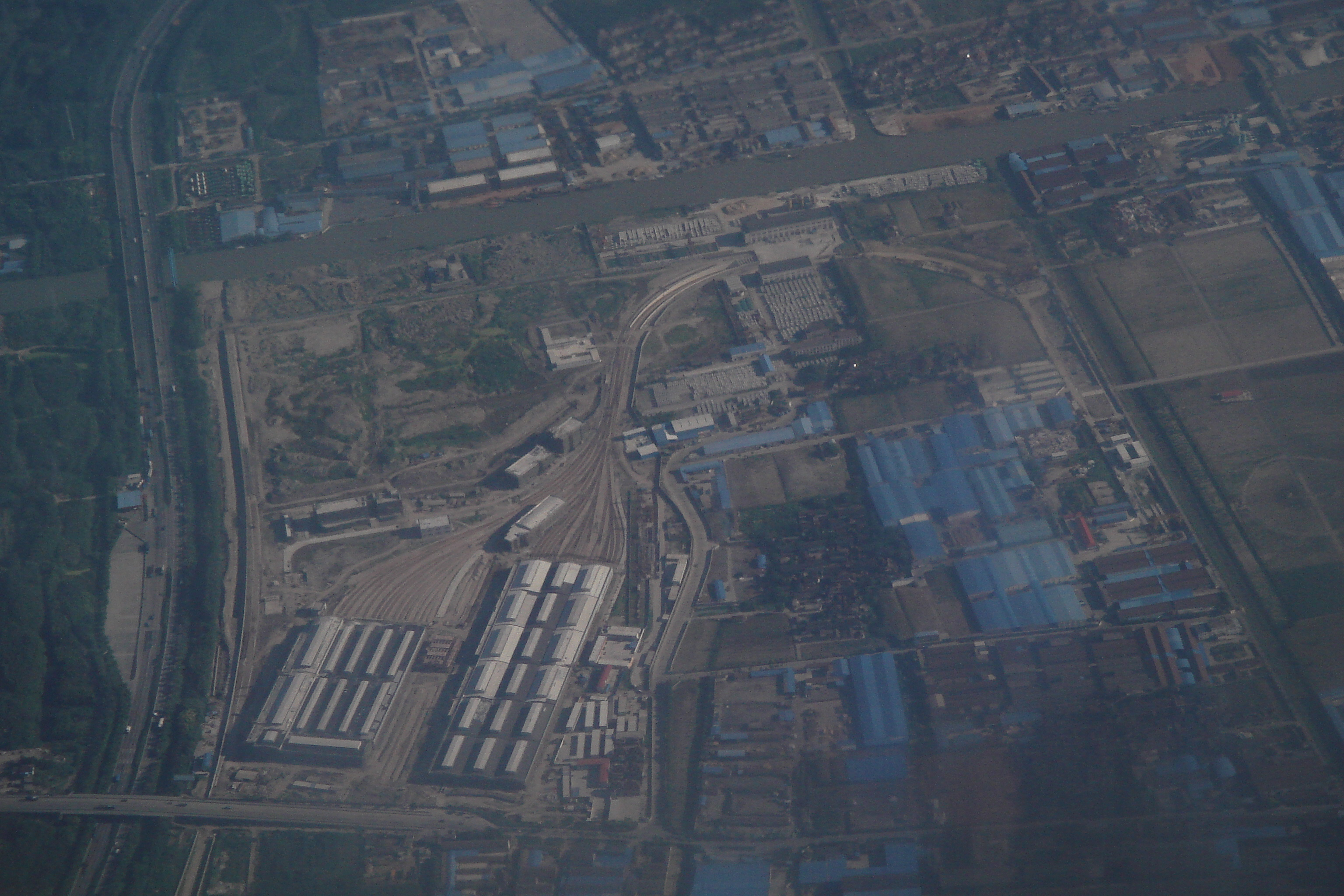 Shanghai metro line 7's park, in Baoshan District. Seen from the plane.